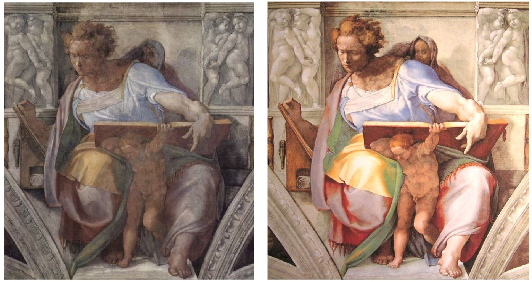 Sistine Chapel, the prophet Daniel before and after Restoration